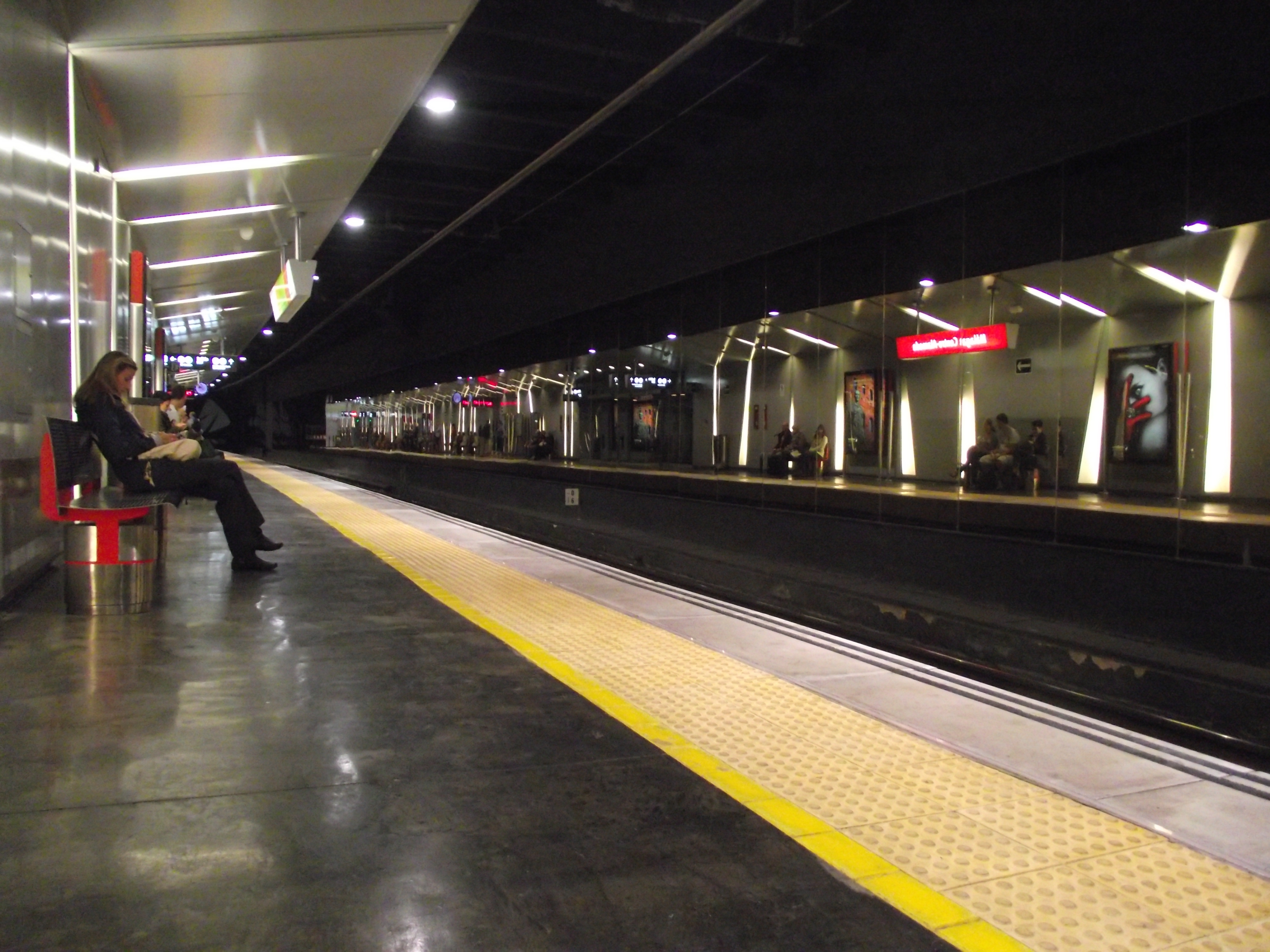 Underground endstation for the Cercanías line. It looks like two platforms, but the other side is a mirror wall.